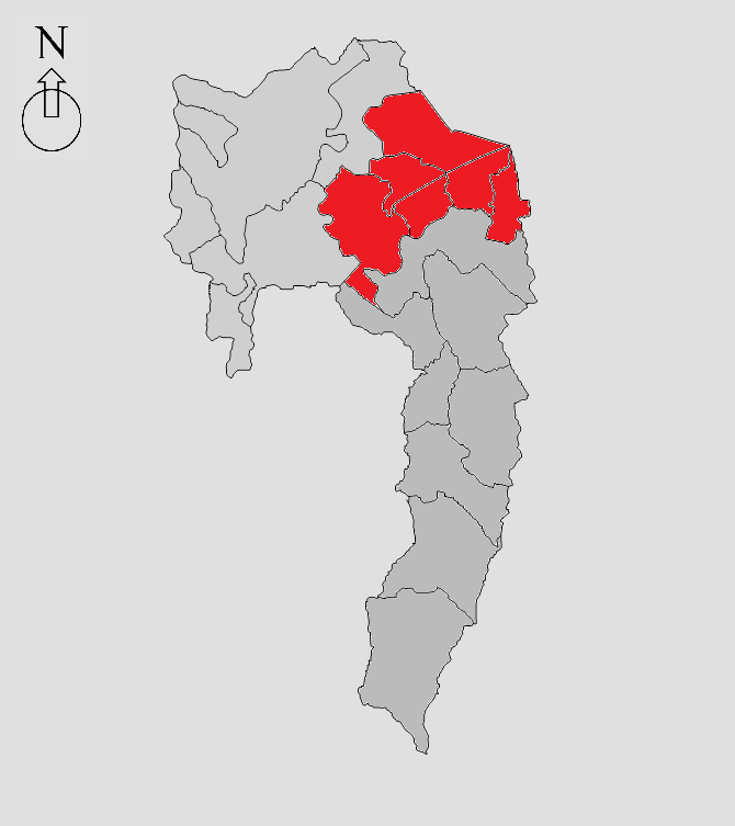 Set of the urban communes of Soacha city: Compartir (south west), Soacha Central (central), La Despensa (north east), Cazucá (south east), San Mateo (south) y San Humberto (south).